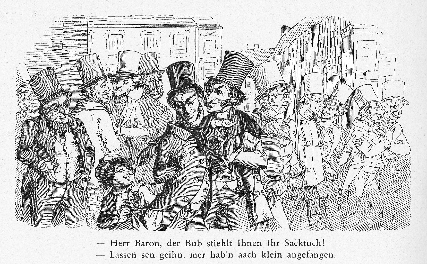 Caricature of Jewish stock-exchange speculators which appeared in the German satirical magazine Fliegende Blätter in 1851. The caption reads, "Herr Baron, that lad's stealing your handkerchief!" (in High German) "Let him go, we once started small too." (in Yiddish)